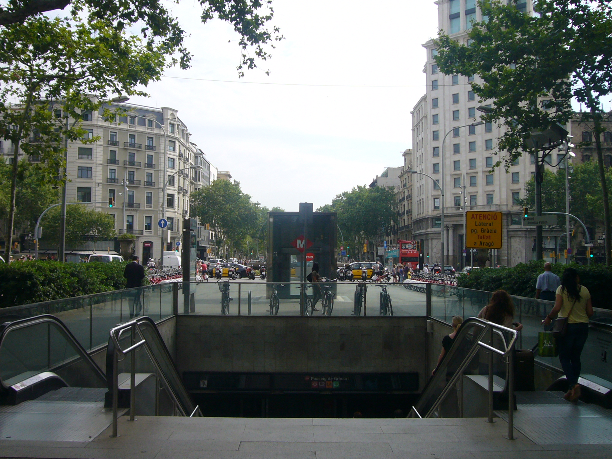 Metro Passeig de Gracia - Gran Via de les Corts Catalanes